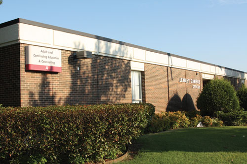 TTC Lemley Campus